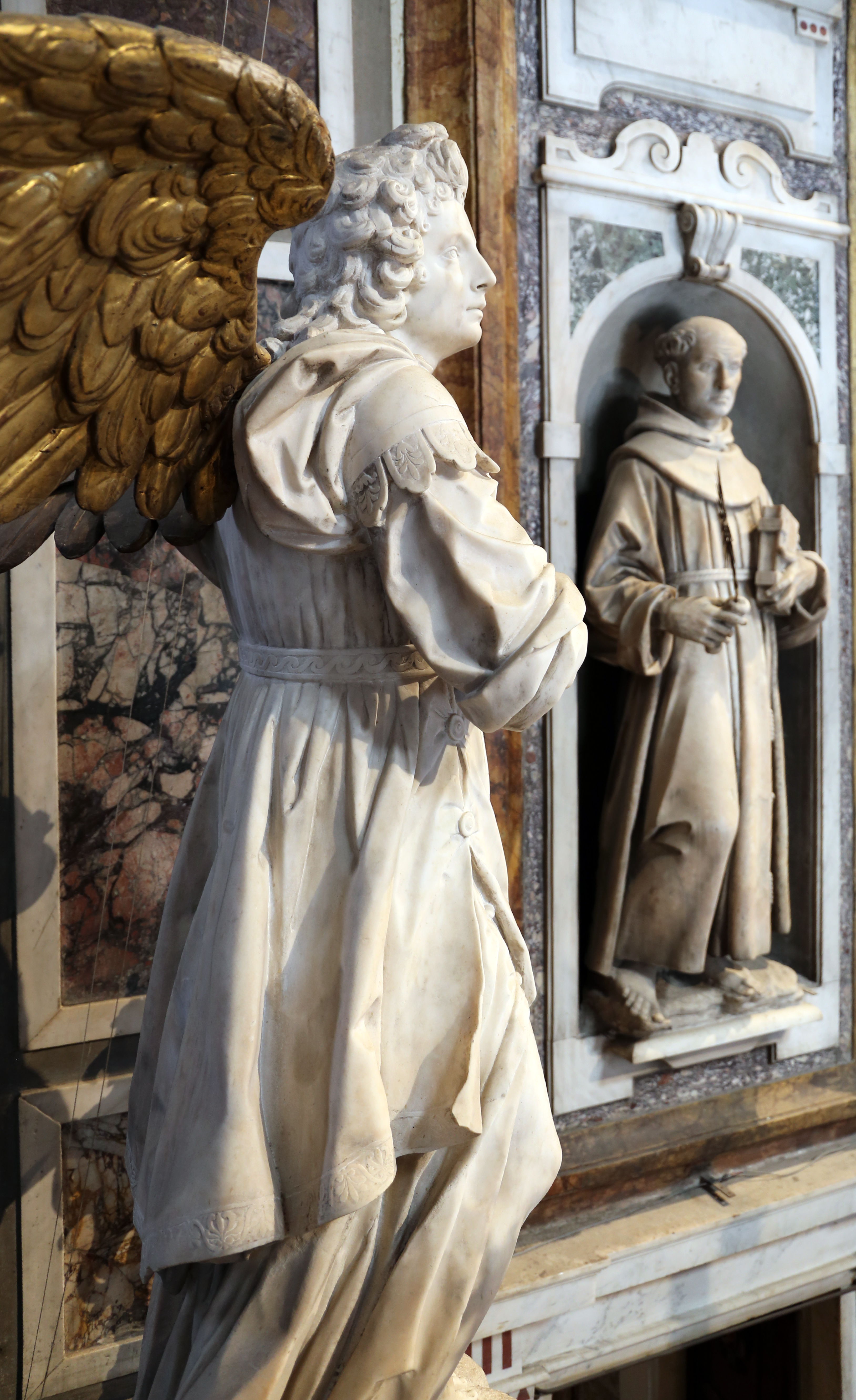 Ognissanti (Florence) - Interior